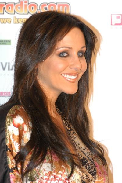 Julia Ann at Listeners Choice Awards, December 2 2006